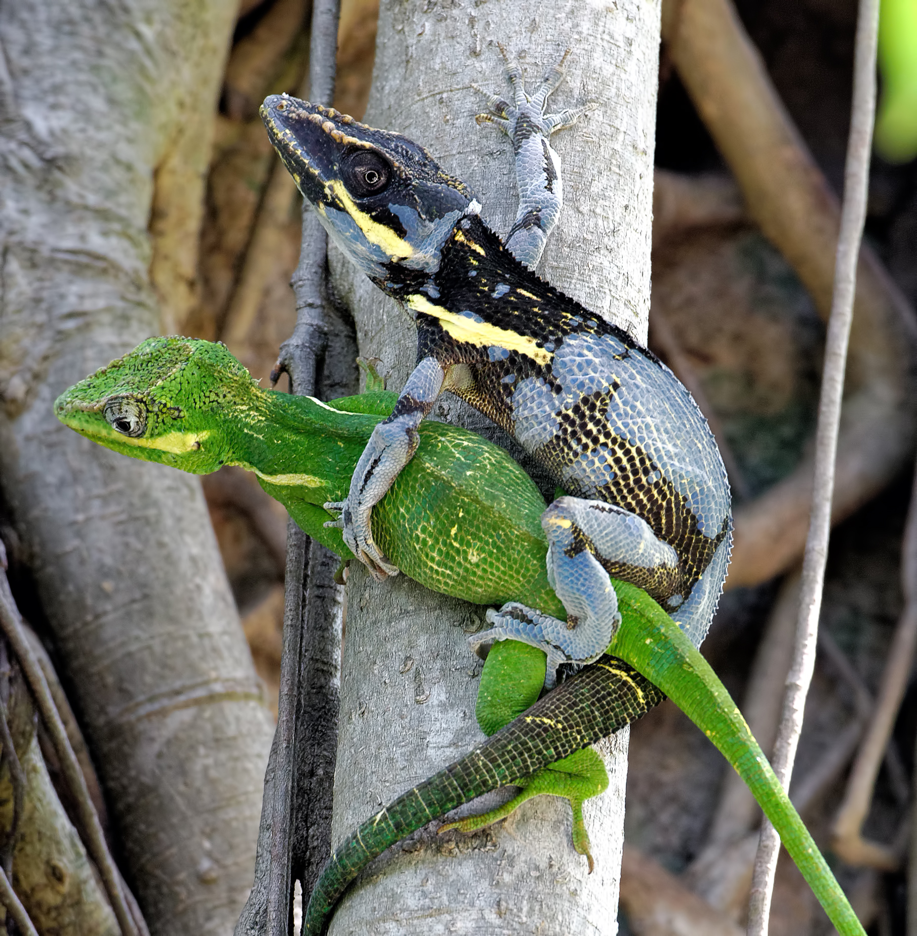 Knight Anoles mating. Male turned black towards the end of a 25 minute mating session